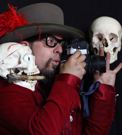 Dr. Paul Koudounaris, photo 2011